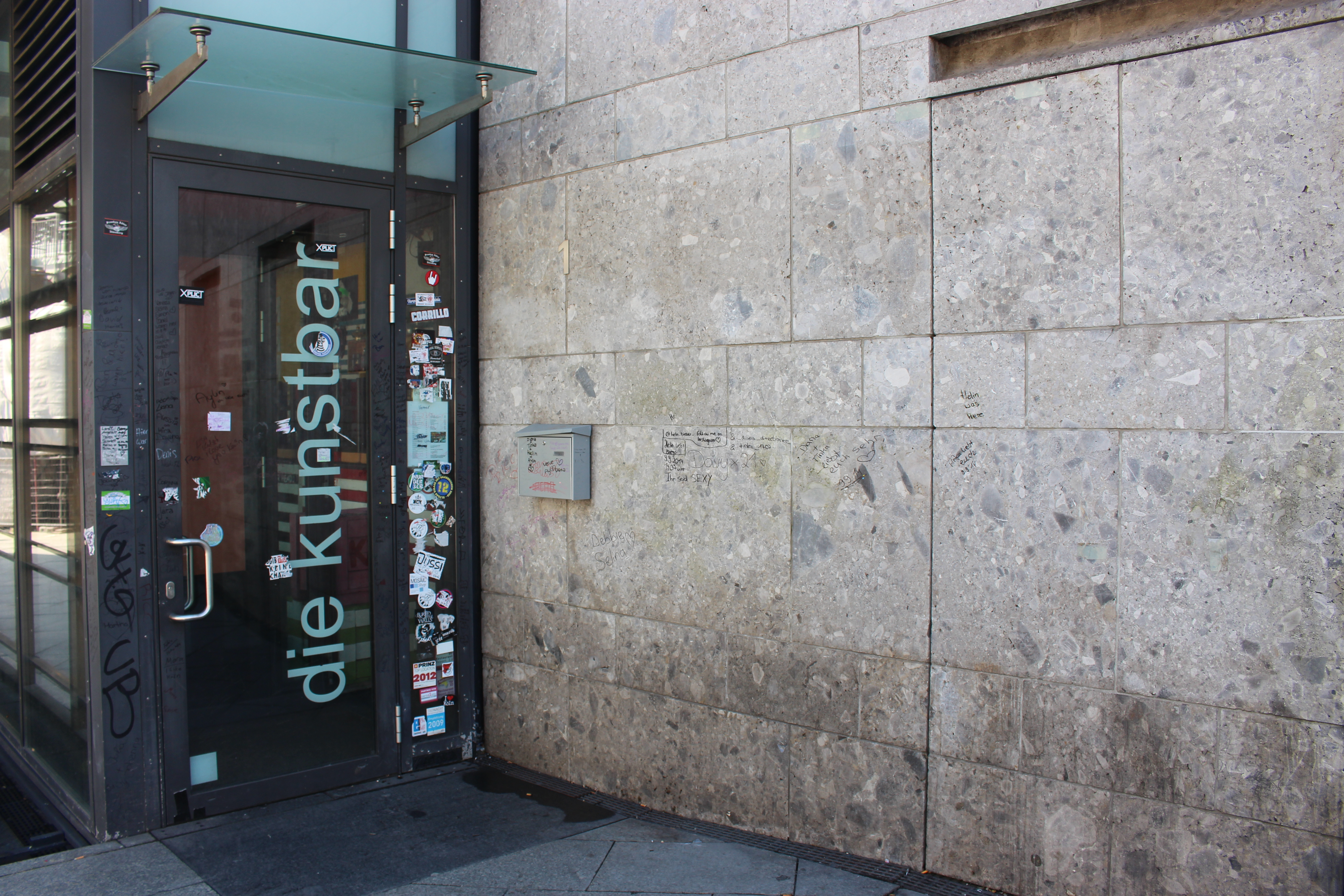 die Kunstbar, known from the german television series Köln 50667, is located close the the Cologne main station.